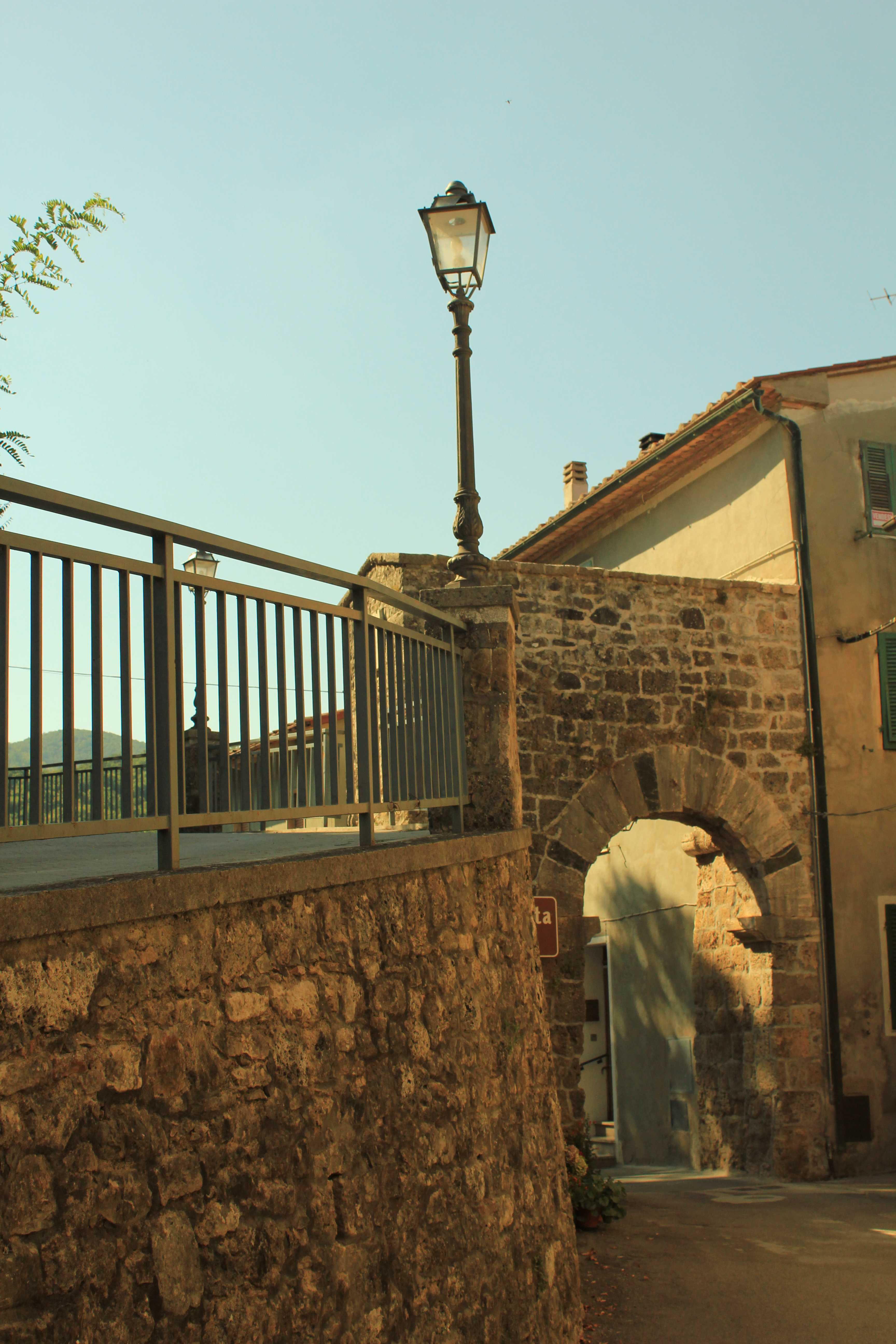 Old walls of Travale, Grosseto